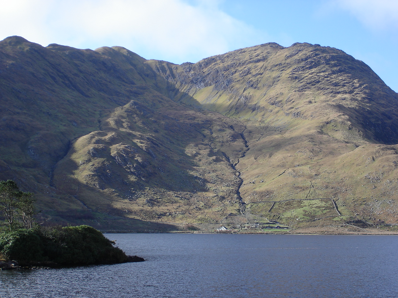 Barrlugwaum and Barrlugcloghadoo between the mountains Garraun and Benchoona from the eastern shore of Lough Fee